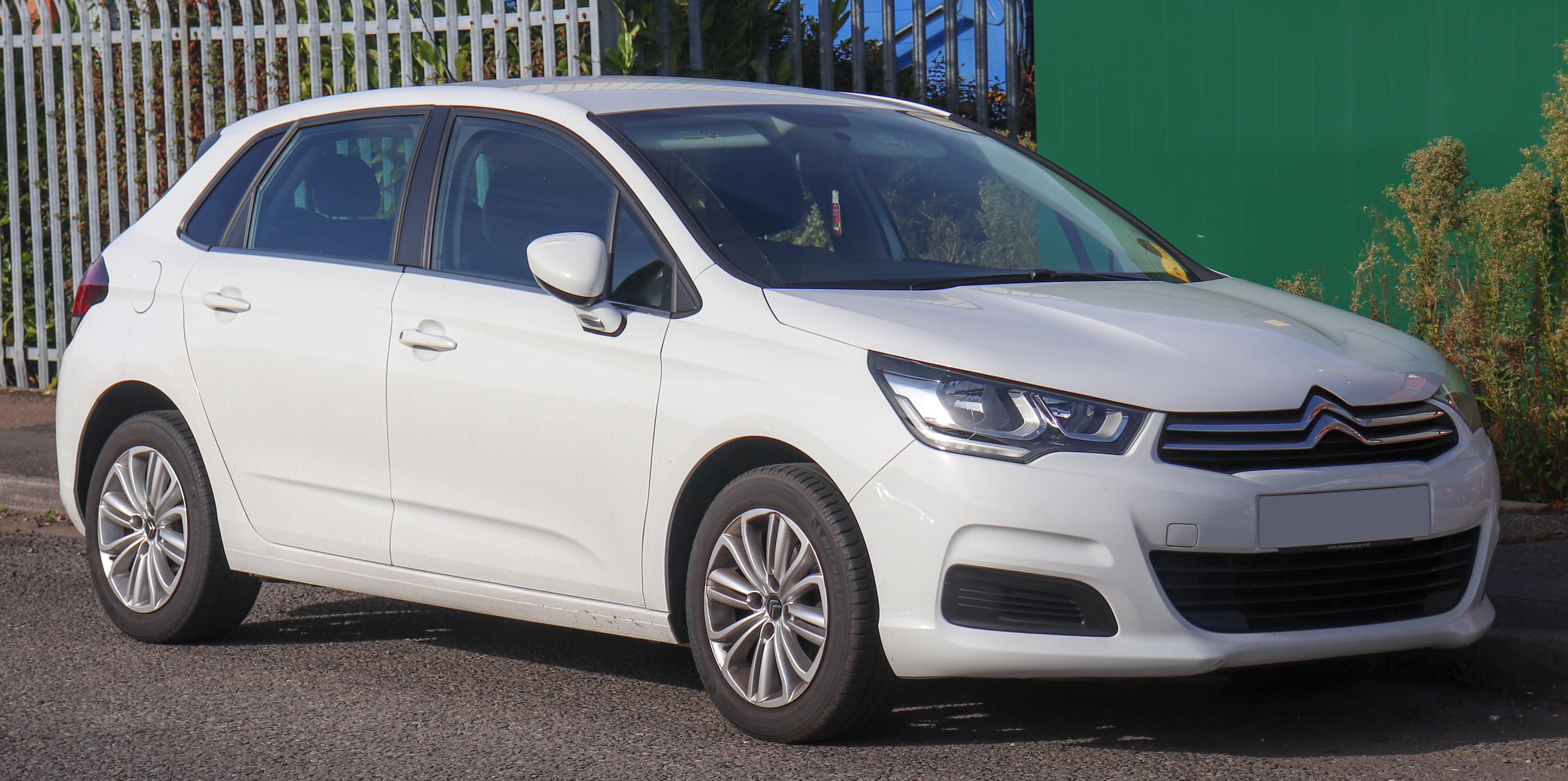 2016 Citroen C4 Feel BlueHDi 1.6 Front Taken in Leamington Spa